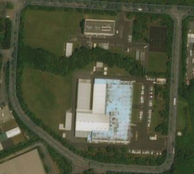 Satellite view